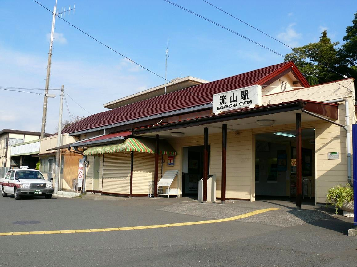 Ryutetu Nagareyama-Station(Japan). It takes a picture of the station at Nagareyama Station in the Nagareyama-Dentetu railway line from the public road. 流鉄流山線の流山駅の駅舎を公道より撮影。